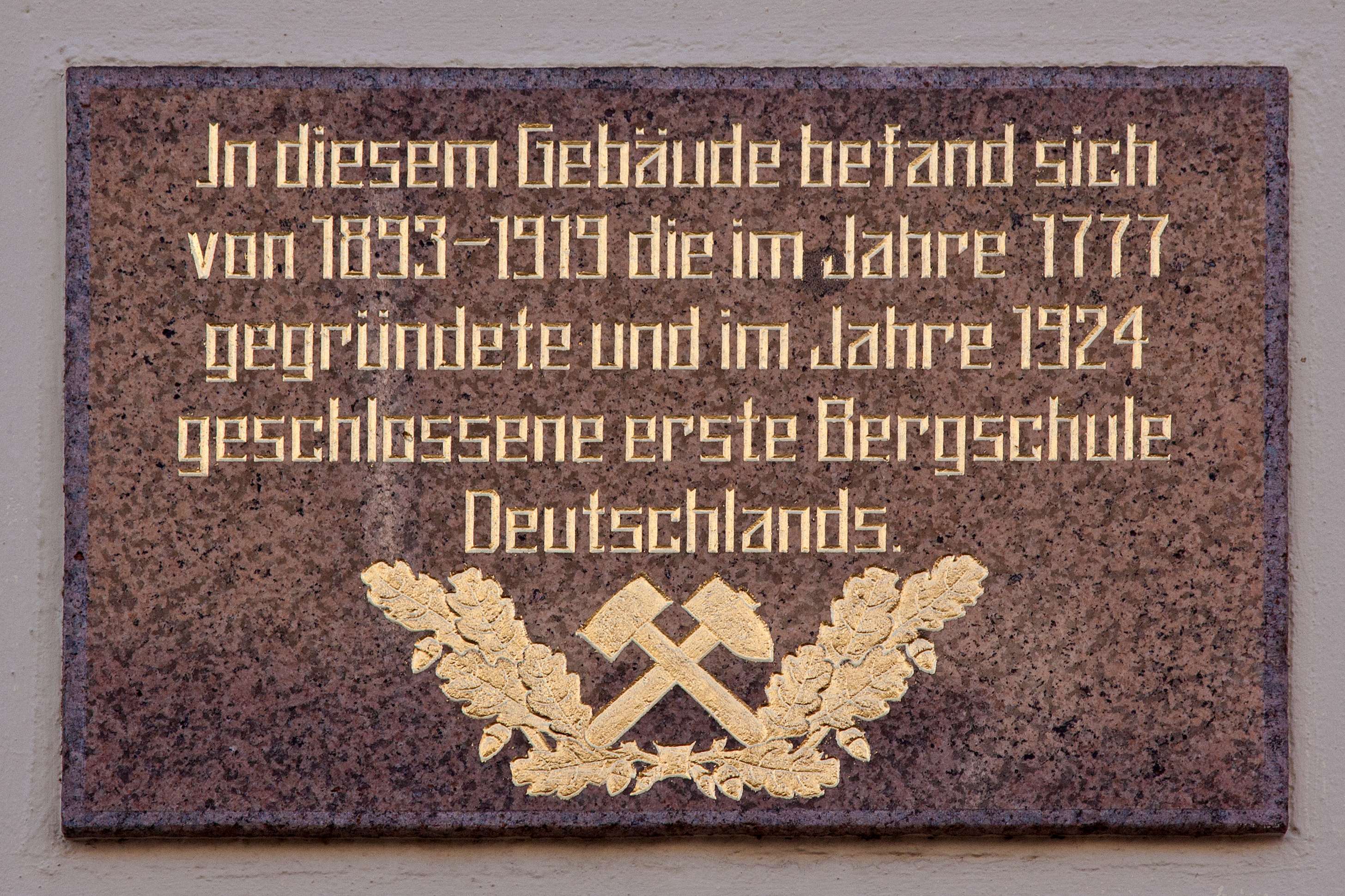 Plaque at the former "Bergschule" (school for miners) in Freiberg, Saksony